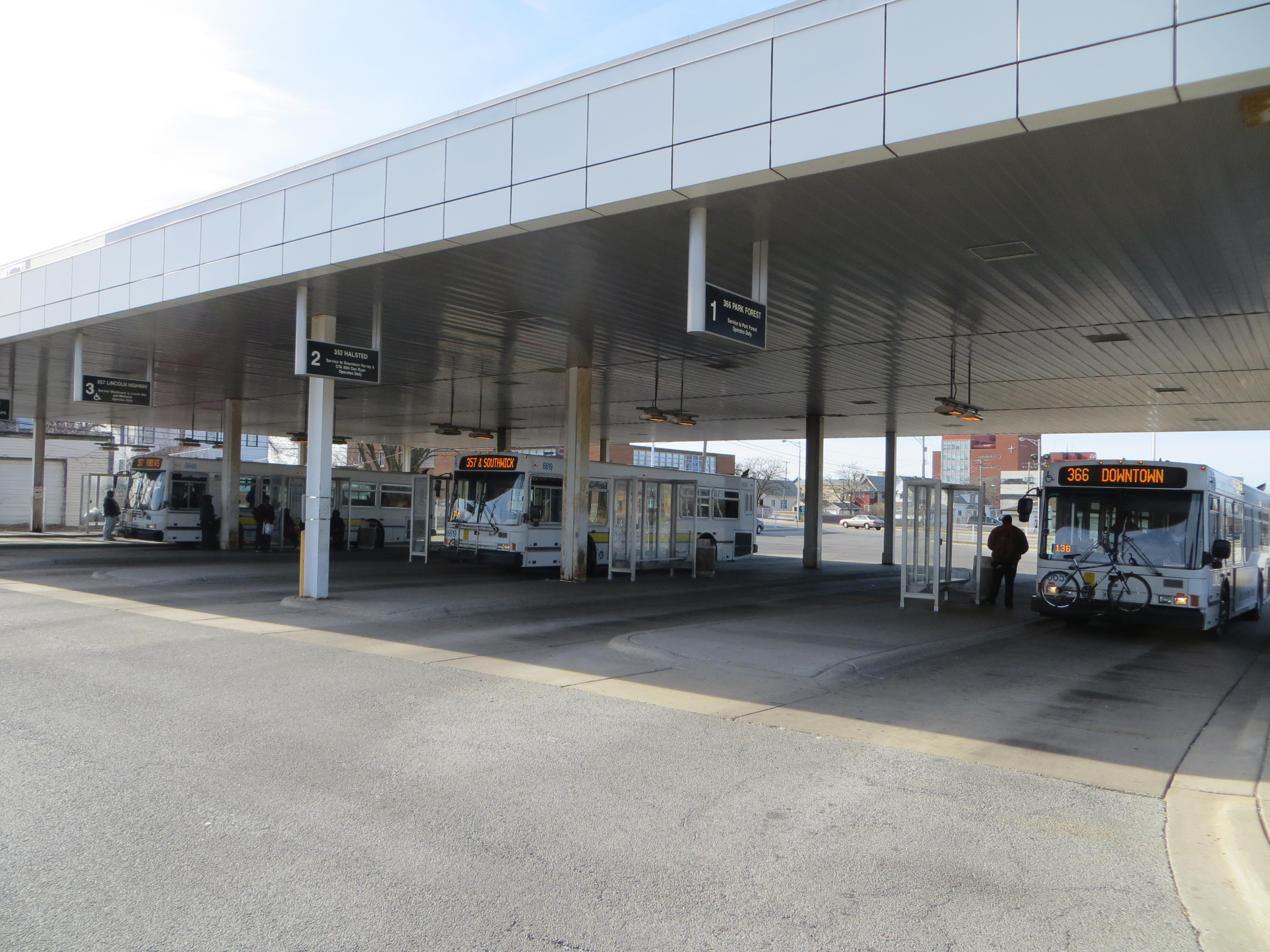 20130403 22 Pace Chicago Heights bus terminal